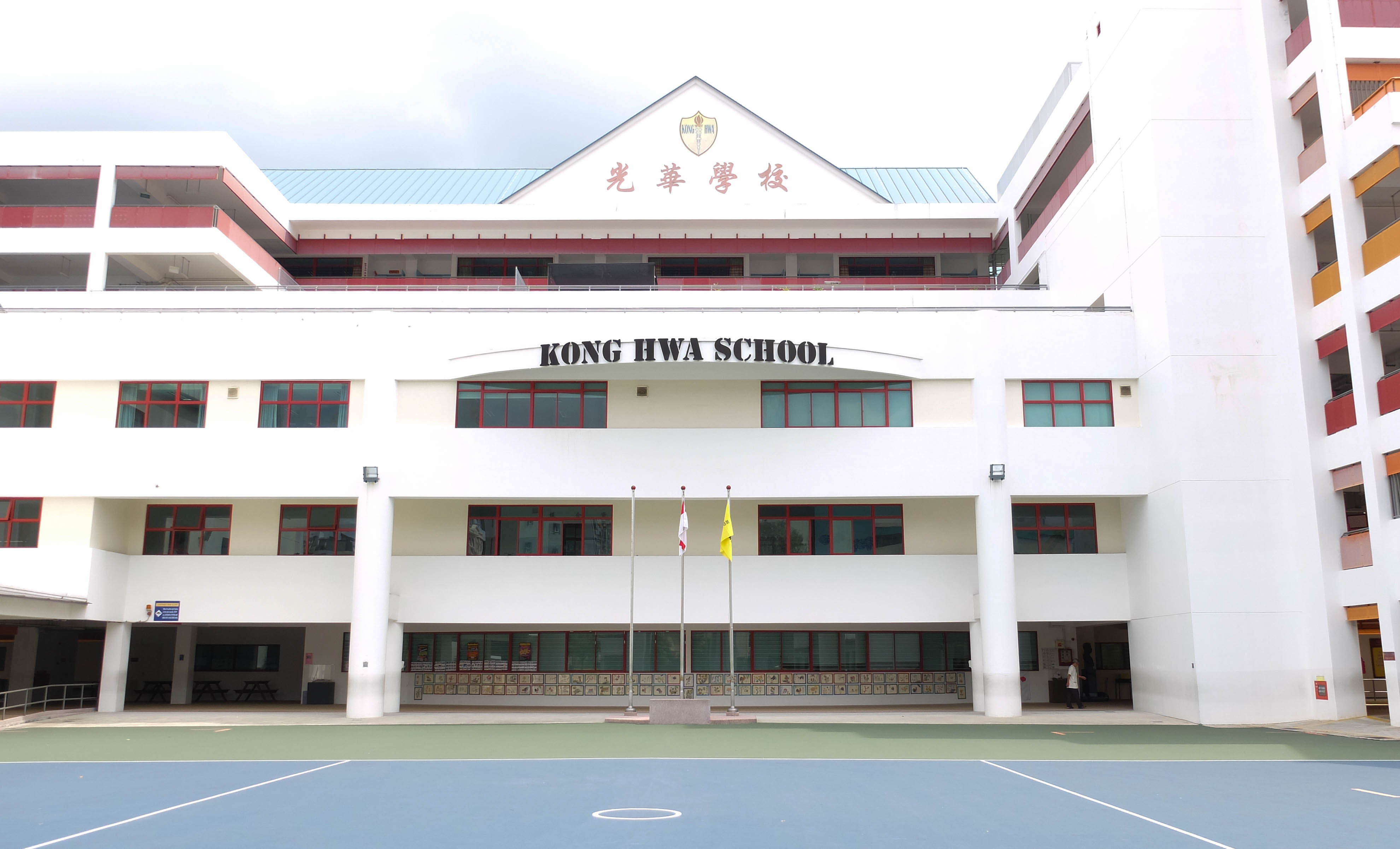 This is a photo of the 3rd Kong Hwa School building along Guillemard Road, Singapore.